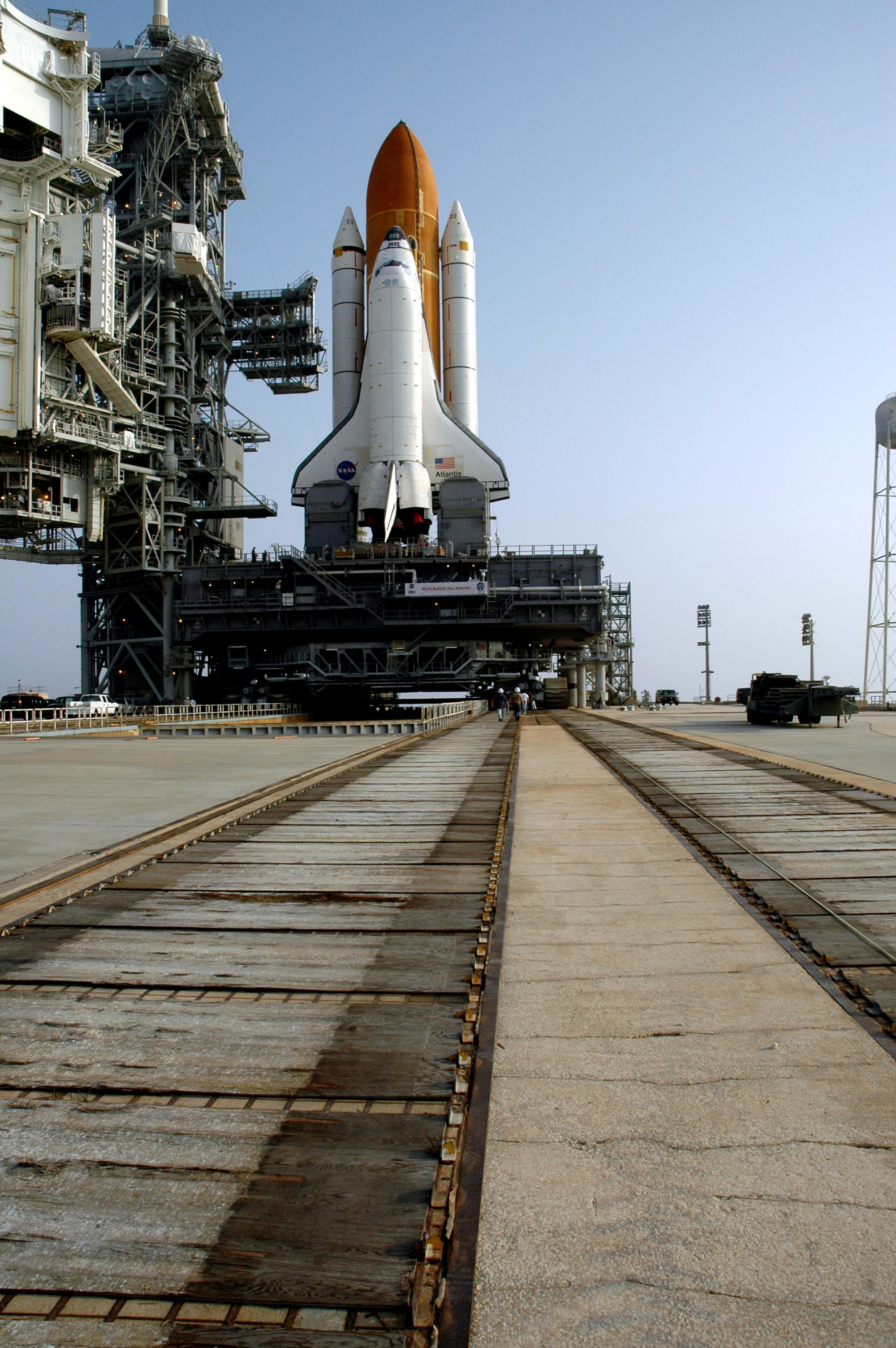 After its overnight rollout from the Vehicle Assembly Building, Space Shuttle Atlantis rests on the hard stand on Launch Pad 39B. The shuttle sits on top of the mobile launcher platform. The crawler, which transported it, is still underneath. The slow speed of the crawler results in a 6-hour trek to the pad approximately 4 miles away.